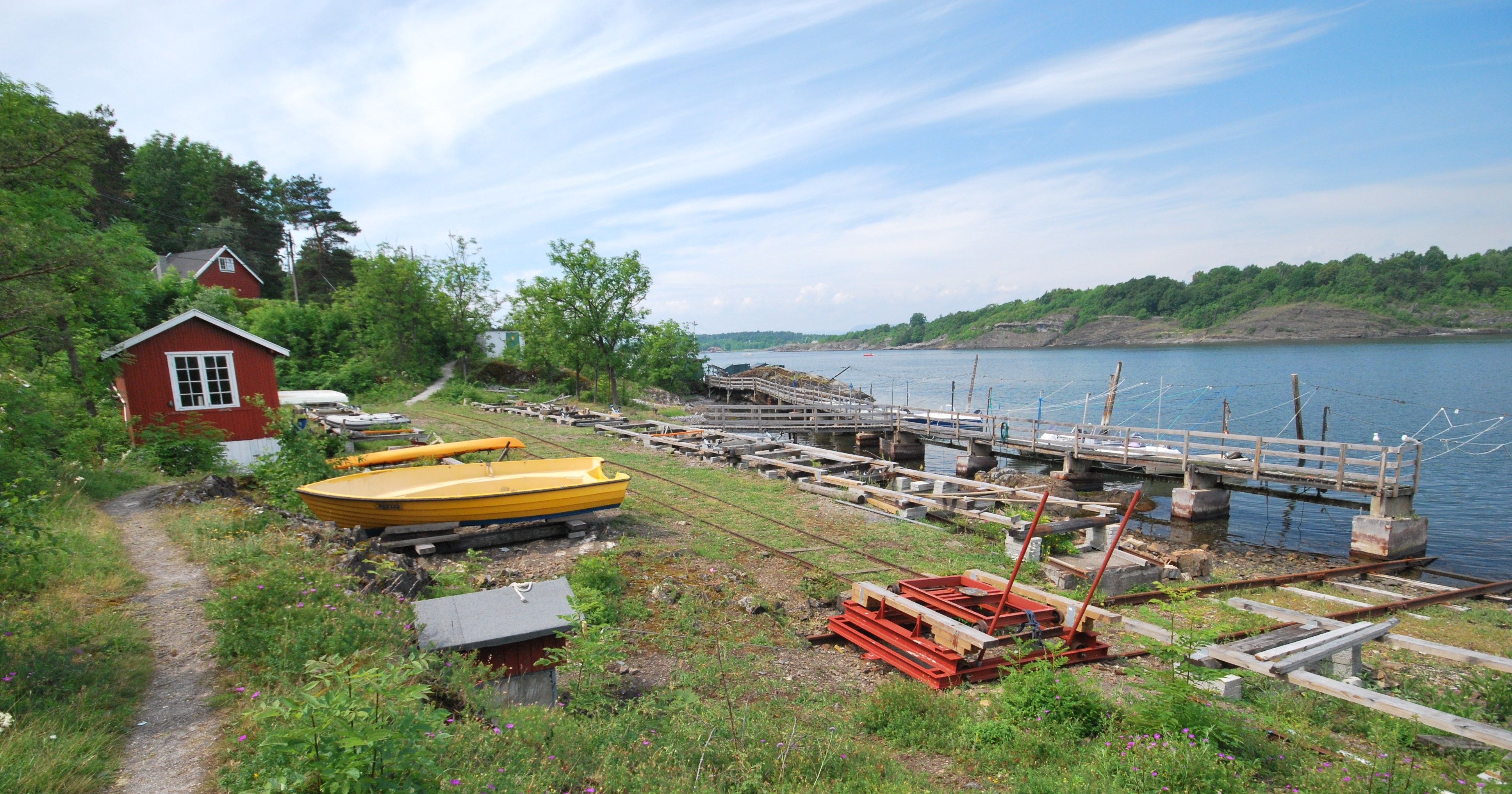 The old port at Bleikøya, Oslo Norwegian: Gamlebrygga på Bleikøya, Oslo